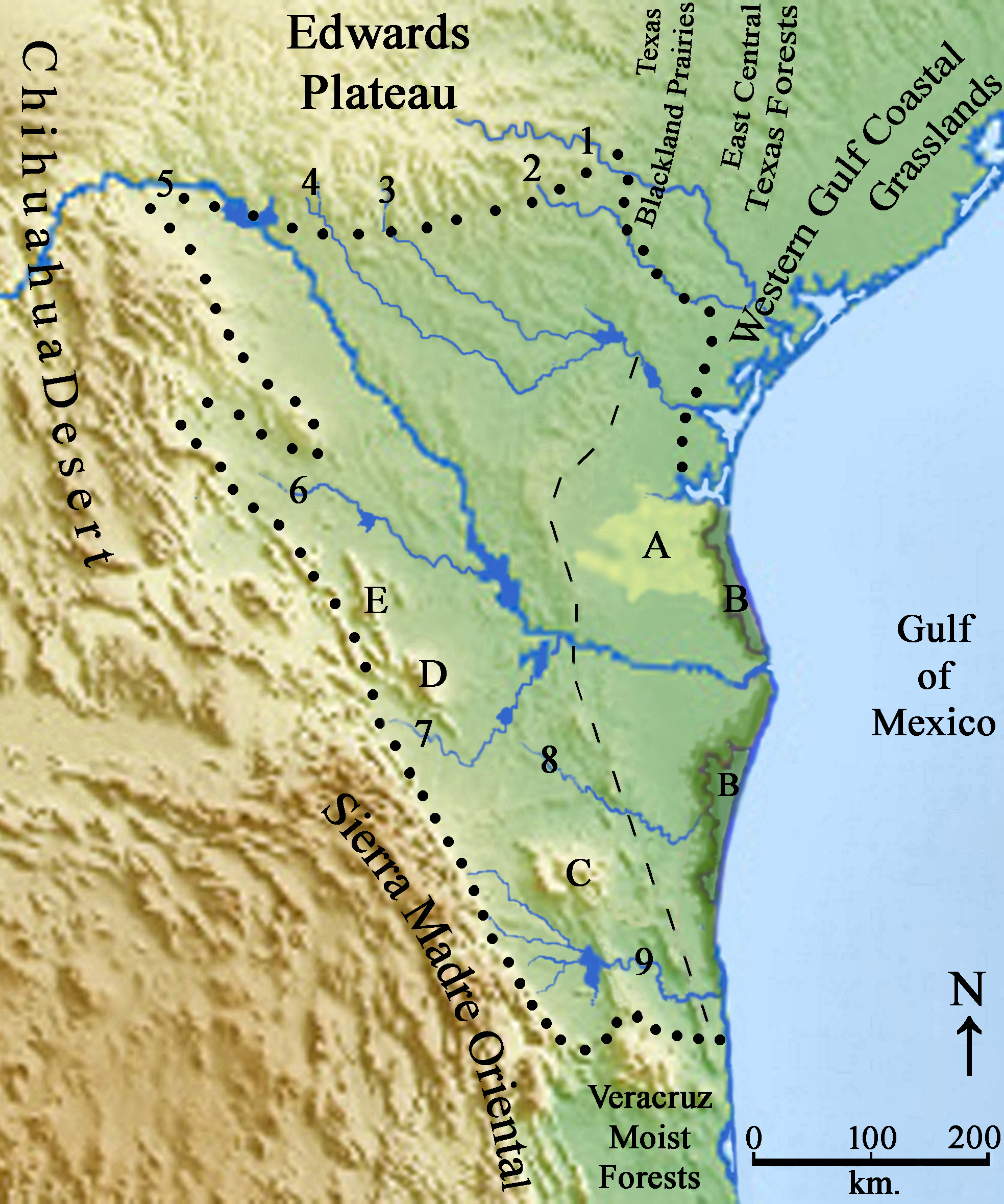 This is a map illustrating the Tamaulipan biotic province of south Texas, USA and northeast Mexico, also referred to as the Tamaulipan mezquital by World Wildlife Fund. The border of the Tamaulipan biotic province are shown with the dotted line. The Bordas Escarpment is shown with dashed line, having deeper sandy soils to the east and high calcium soils over a thick layer of caliche to the west. Some major ecosystems in the region are identified with latters: A = Costal Sand Plains; B = Laguna Madre; C = Sierra San Carlos; D = Sierra Los Picachos; E = Sierra de Lampazos. The major rivers of the region are numbered: 1. Guadalupe River; 2. San Antonio River; 3. Frio River; 4. Nueces River; 5. Rio Grande / Rio Bravo; 6. Rio Salado/Rio Sabinas; 7. Rio San Juan; 8. Rio San Fernando; 9. Rio Soto La Marina. The Tamaulipan biotic province was identified and discussed in - Dice, L. R. 1943. The Biotic Provinces of North America. University of Michigan Press. Ann Arbor. Michigan. 1-78 pp. Blair, W. Frank. 1949 (1950).The Biotic Provinces of Texas.The Texas Journal of Science. Vol. 2, No. 1: 93-117.